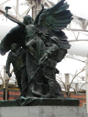 View of the Dover Marine Station War Memorial